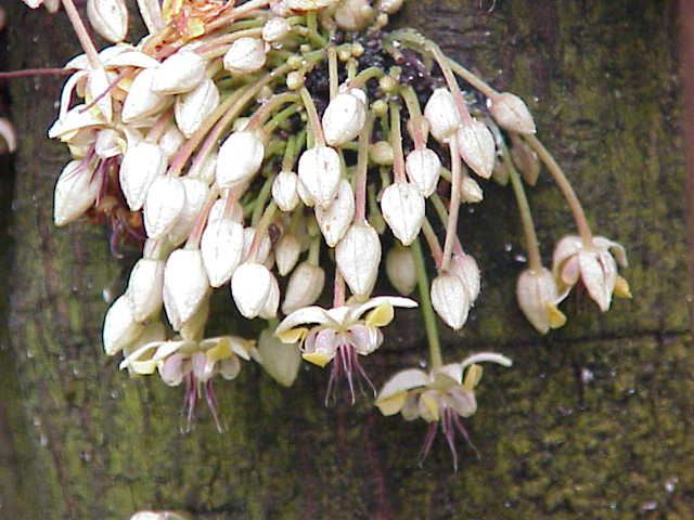 Species: Theobroma cacao Family: Sterculiaceae Image No. 1